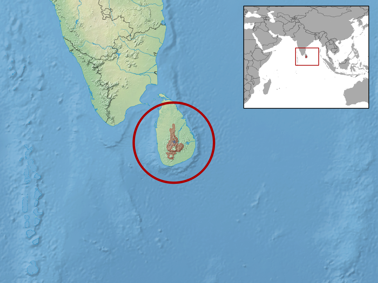 geographic distribution of Lankascincus deignani